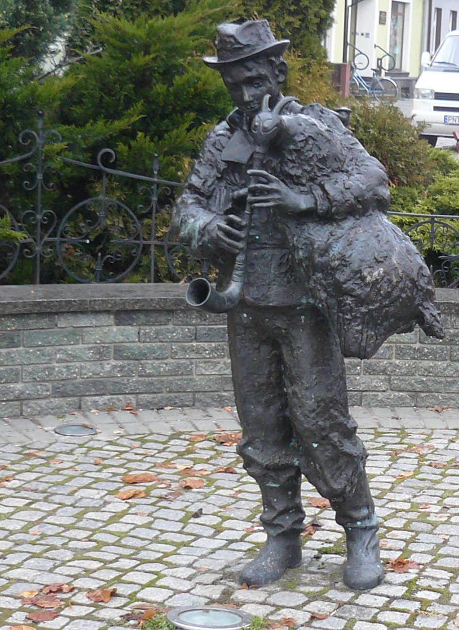 Zbąszyń. Market Square. Sculptures of folk music.